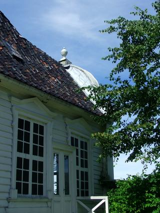 Damsgård hovedgård, Bergen, Norway.